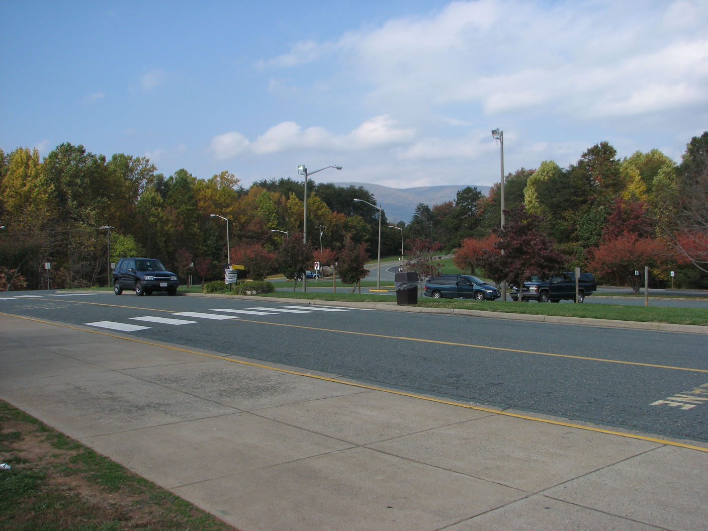 Photo of the grounds of Western Albemarle High School in Crozet, Virginia, taken in October, 2006, by RebelAt.